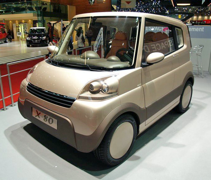 The Espace X80, a city car prototype shown at the 2008 Geneva Salon